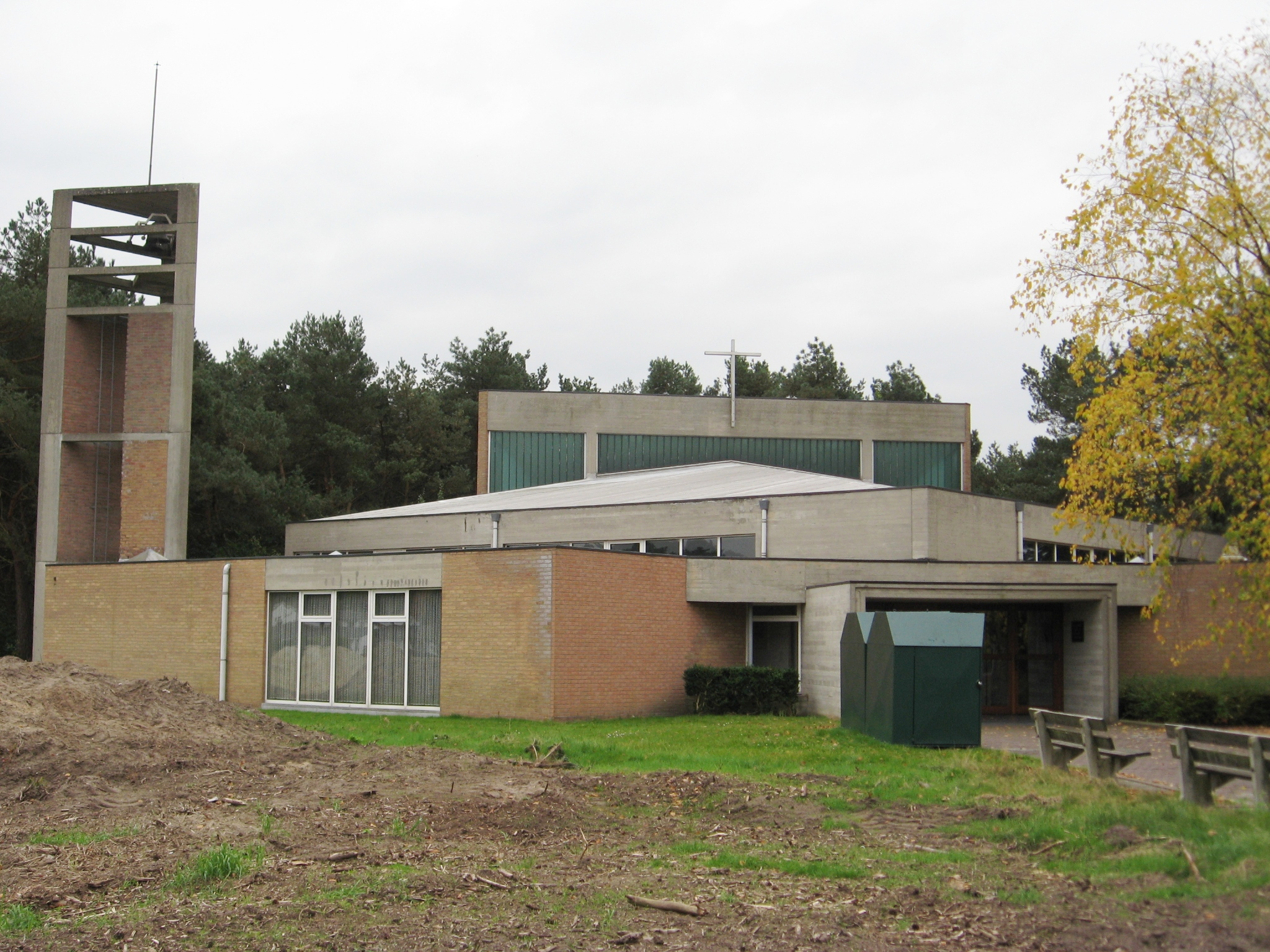 Church of Saint Paul in Lommel (Heeserbergen), Limburg, Belgium